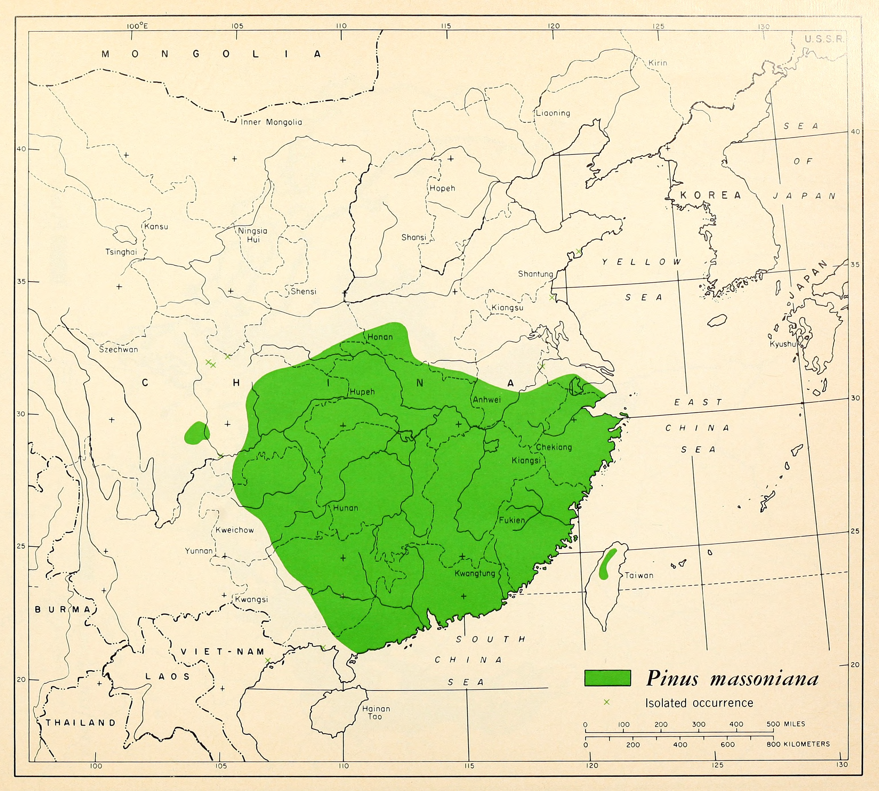 Map 35 Pinus massoniana distribution